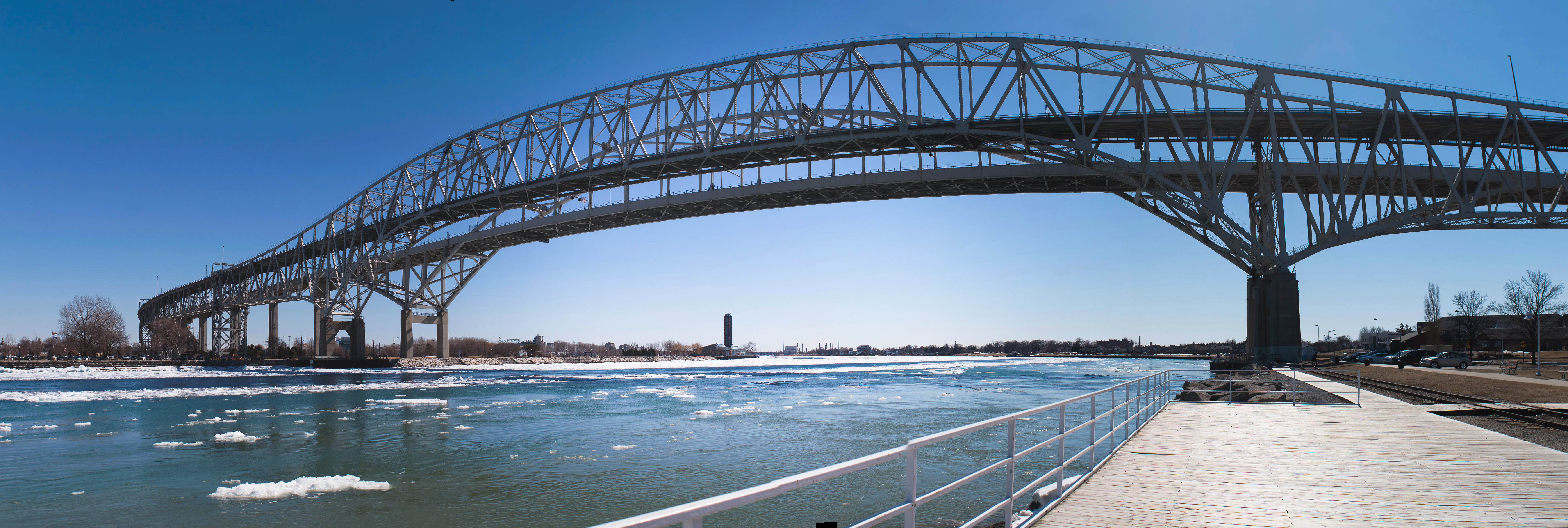 Blue Water Bridge